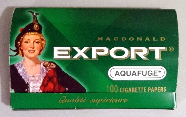 A packet of MacDonald Export Aquafuge rolling papers.